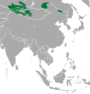 Alpine Pika (Ochotona alpina) range